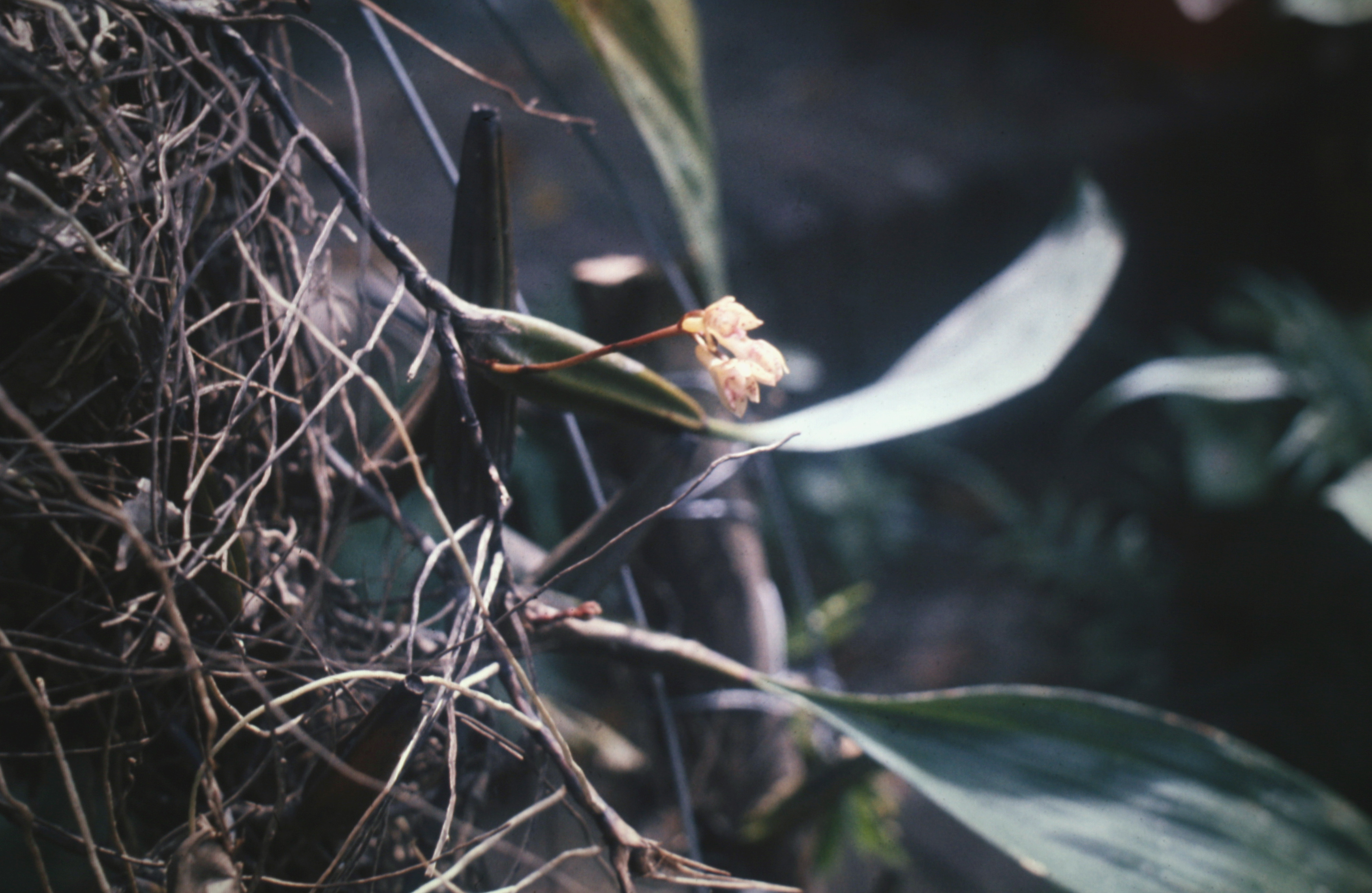 Bifrenaria longicornis, Suriname.